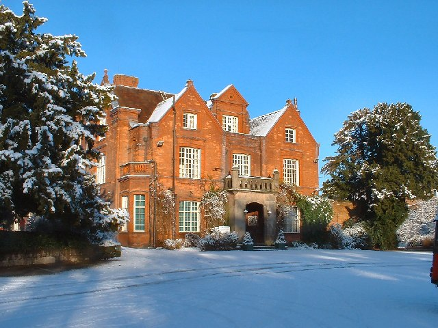 Reaseheath Hall, part of Cheshire College of Agriculture at Rease Heath, near Nantwich, Cheshire